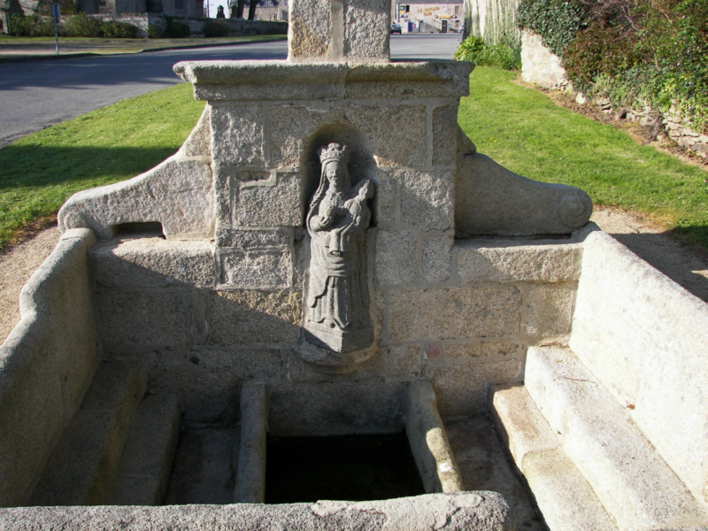 Spring of Notre-Dame-de-Berven in the hamlet Berven of the commune Plouzévédé in the département Finistère in the region Bretagne in France.